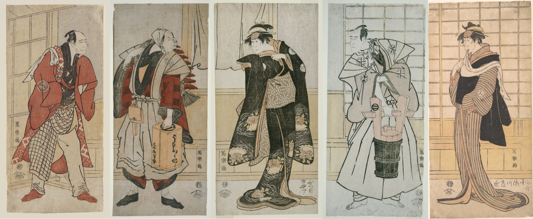 Ukiyo-e pentaptych of characters from the kabuki play Matsu ha Misao Onna Kusunoki Niban-me